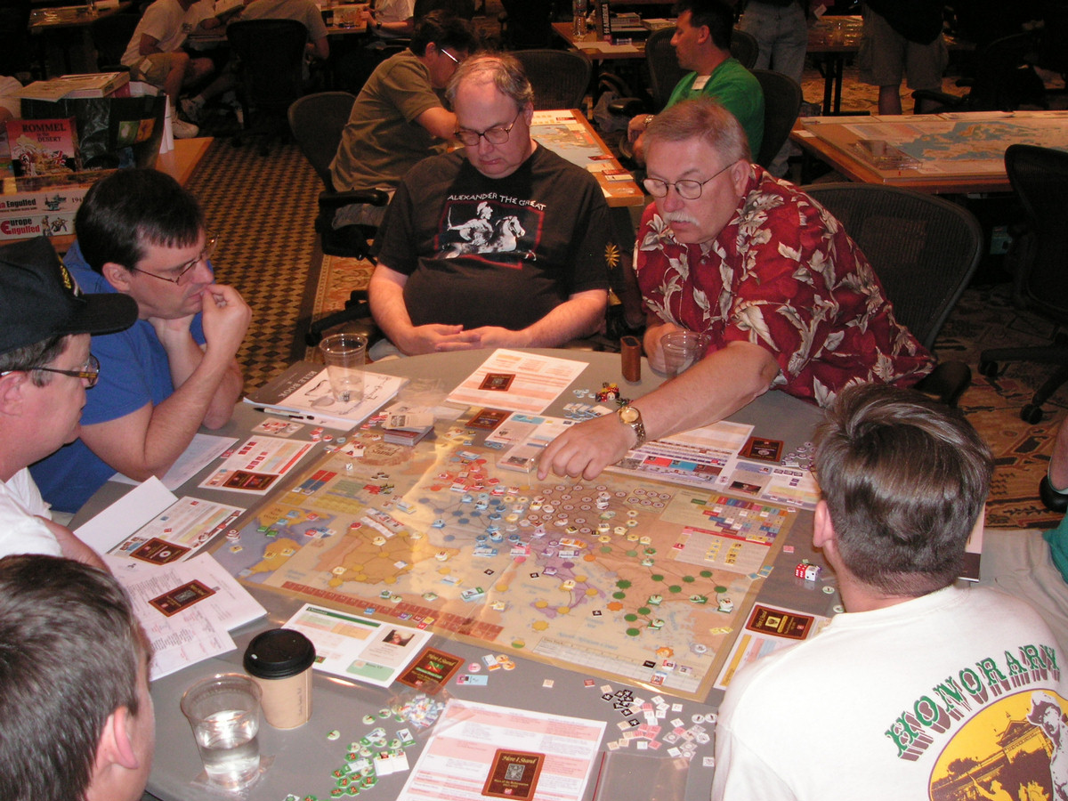 Here I Stand (2006 board game by GMT games) gaming session in progress at CSW Expo 2009